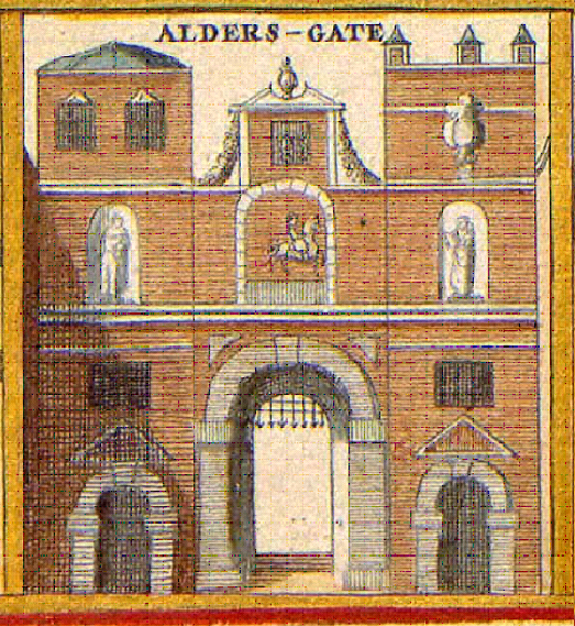 "Alders-gate", a crop of a 1690 map of London with boxed illustrations of the gates of below plan of city (full map).